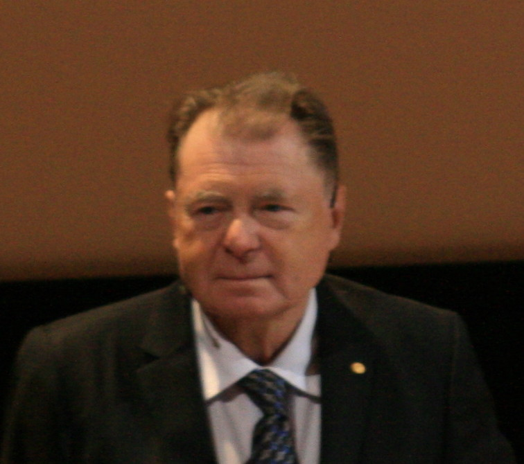 Richard Fred Heck, awarded the Nobel Prize in Chemistry for 2010, at his Nobel lecture in Stockholm University